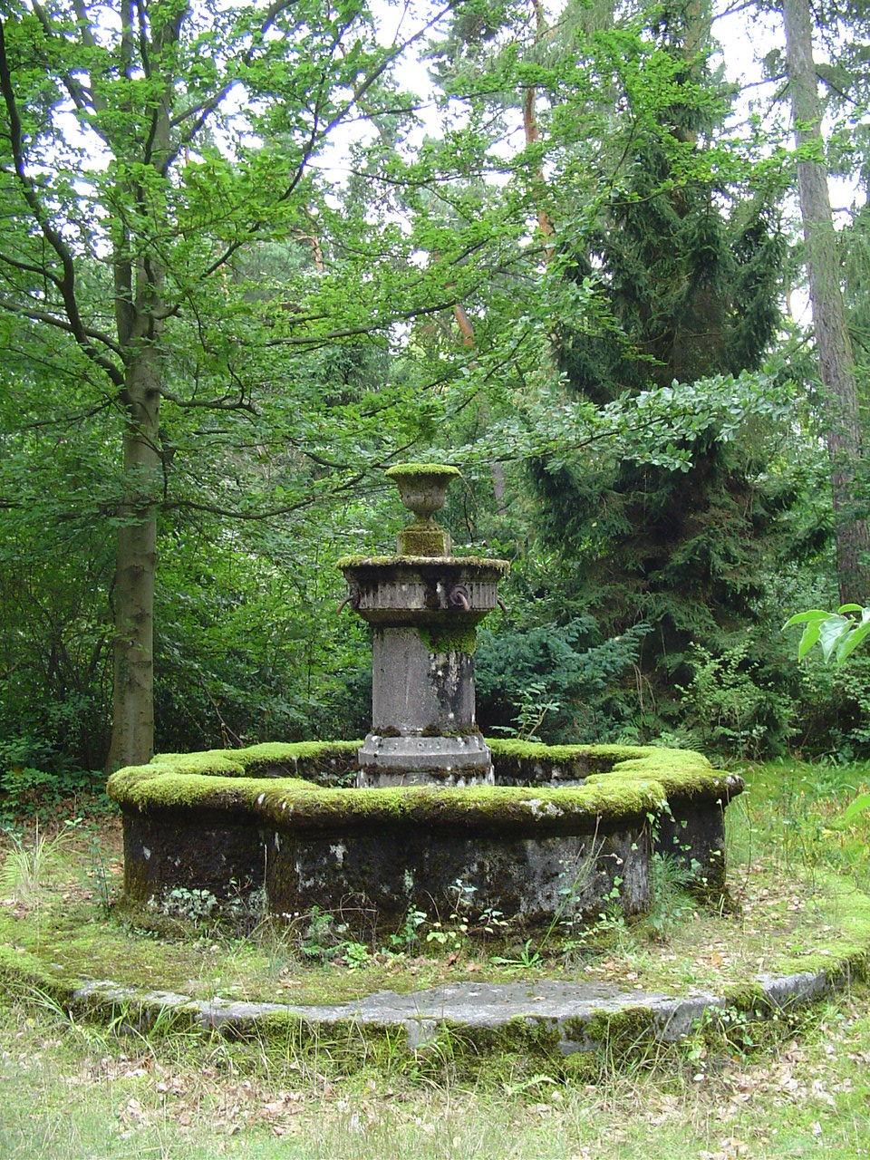 Südwestkirchhof Stahnsdorf near Berlin, Germany